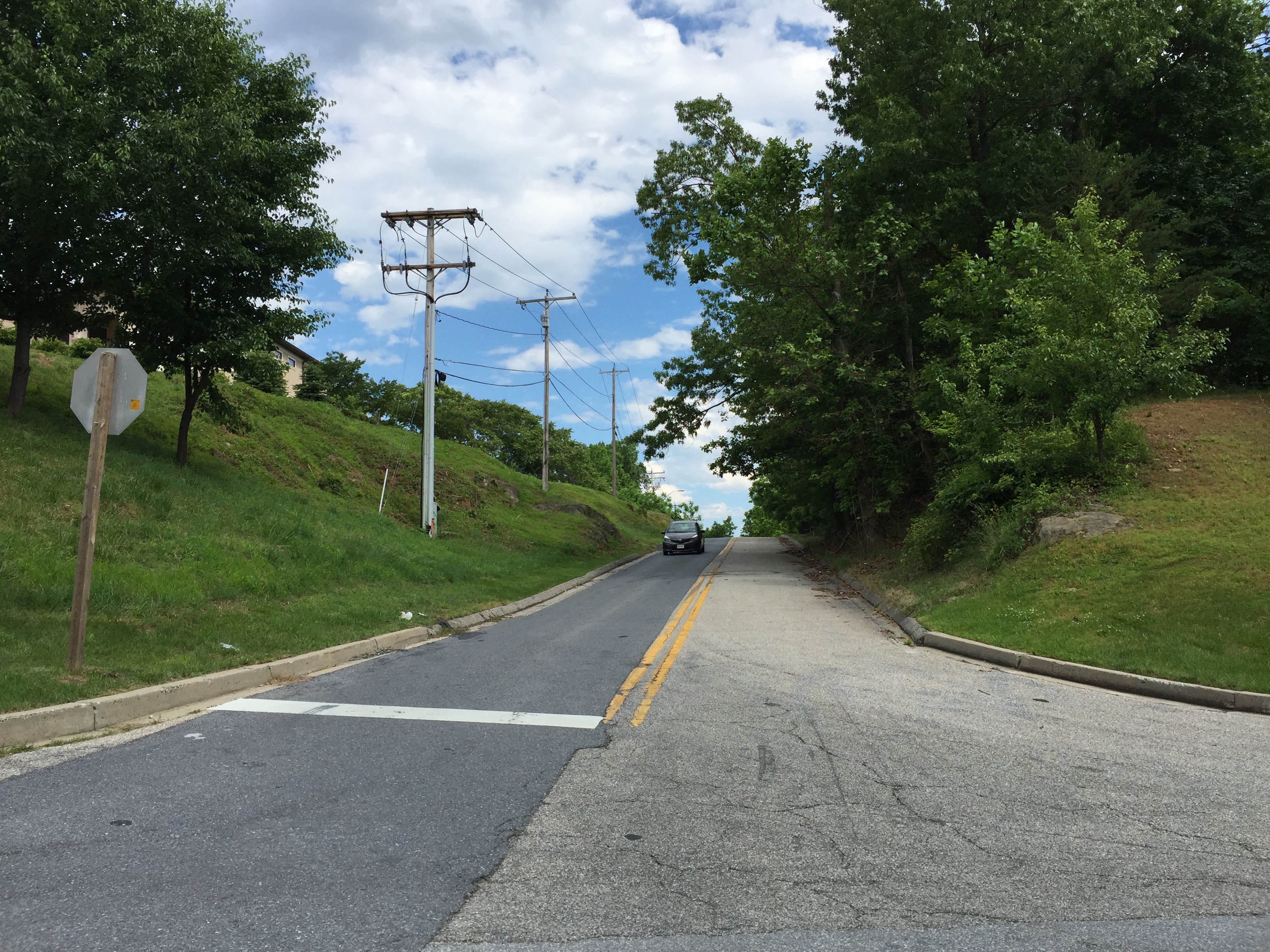 View east at the west end of Maryland State Route 526 (Old Westminster Pike) at Woodfield Court in Glen Falls, Baltimore County, Maryland